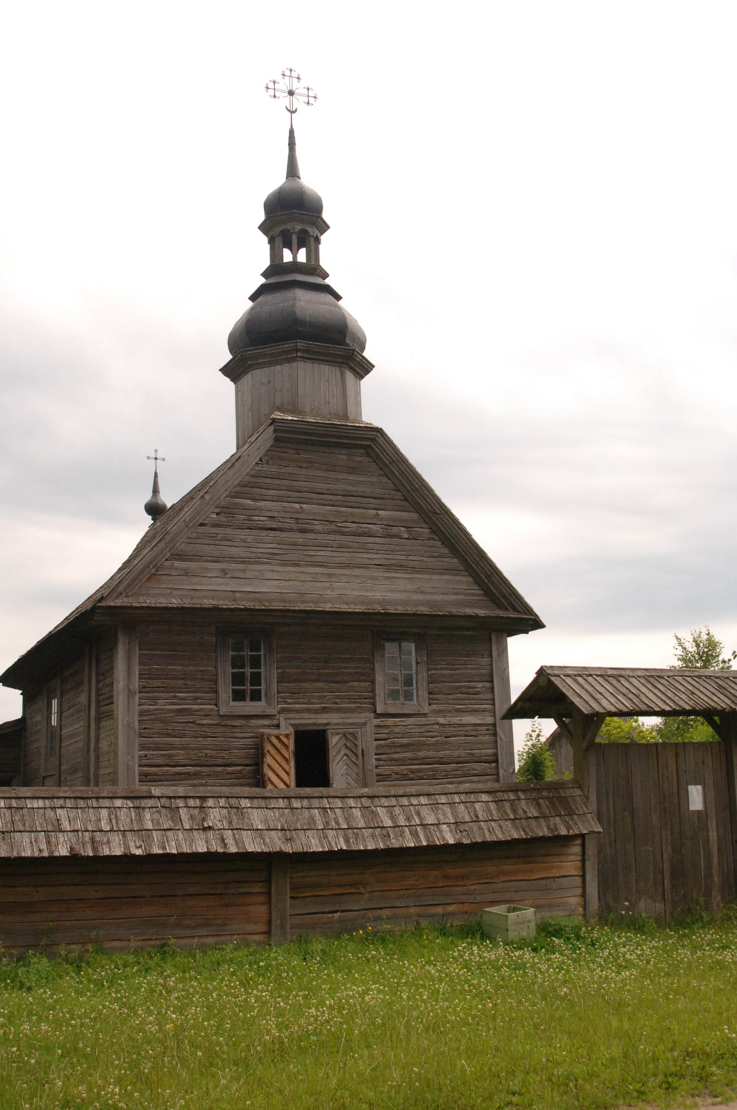 ANOTHER BUILDING IN THE BELORUSSIAN STATE MUSEUM OF FOLK ARCHITECTURE